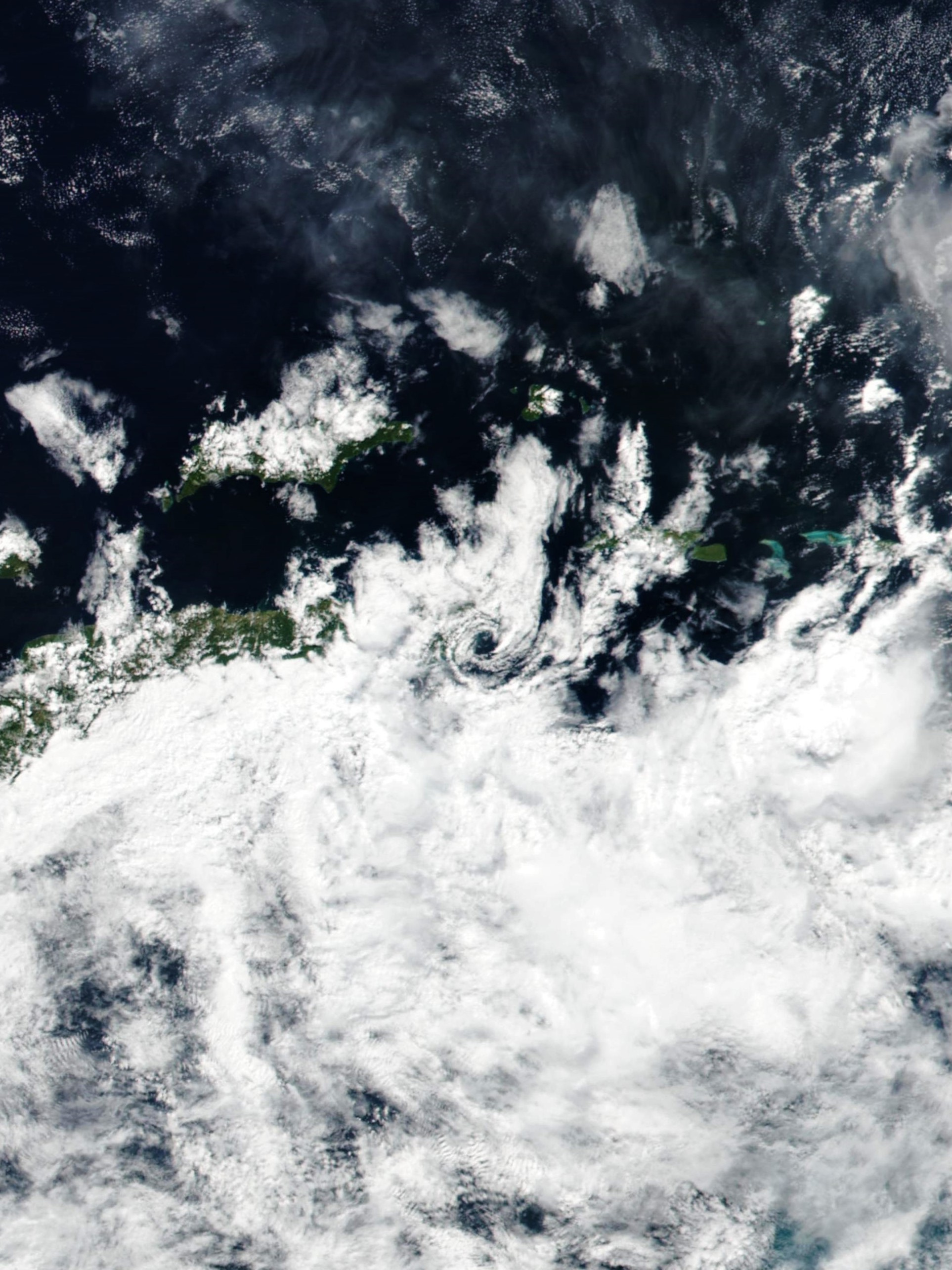 Ex-Tropical Cyclone Lili making landfall on the northestern coast of East Timor on 11 May 2019, just prior to dissipation. Sustained winds are at approximately 45 km/h (30 mph).